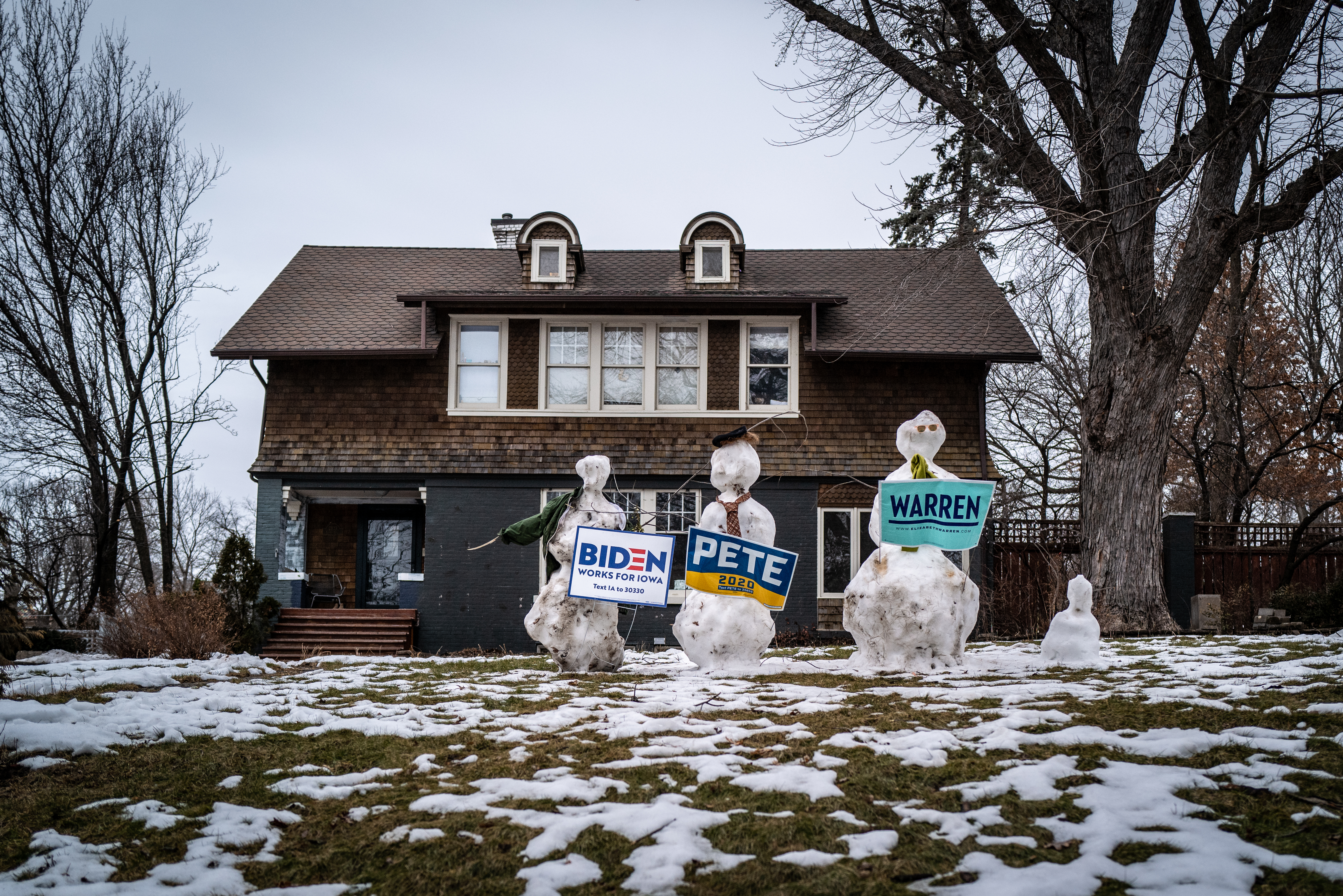 Melting snowmen hold signs for three different presidential candidates on the front lawn of a home in Des Moines.